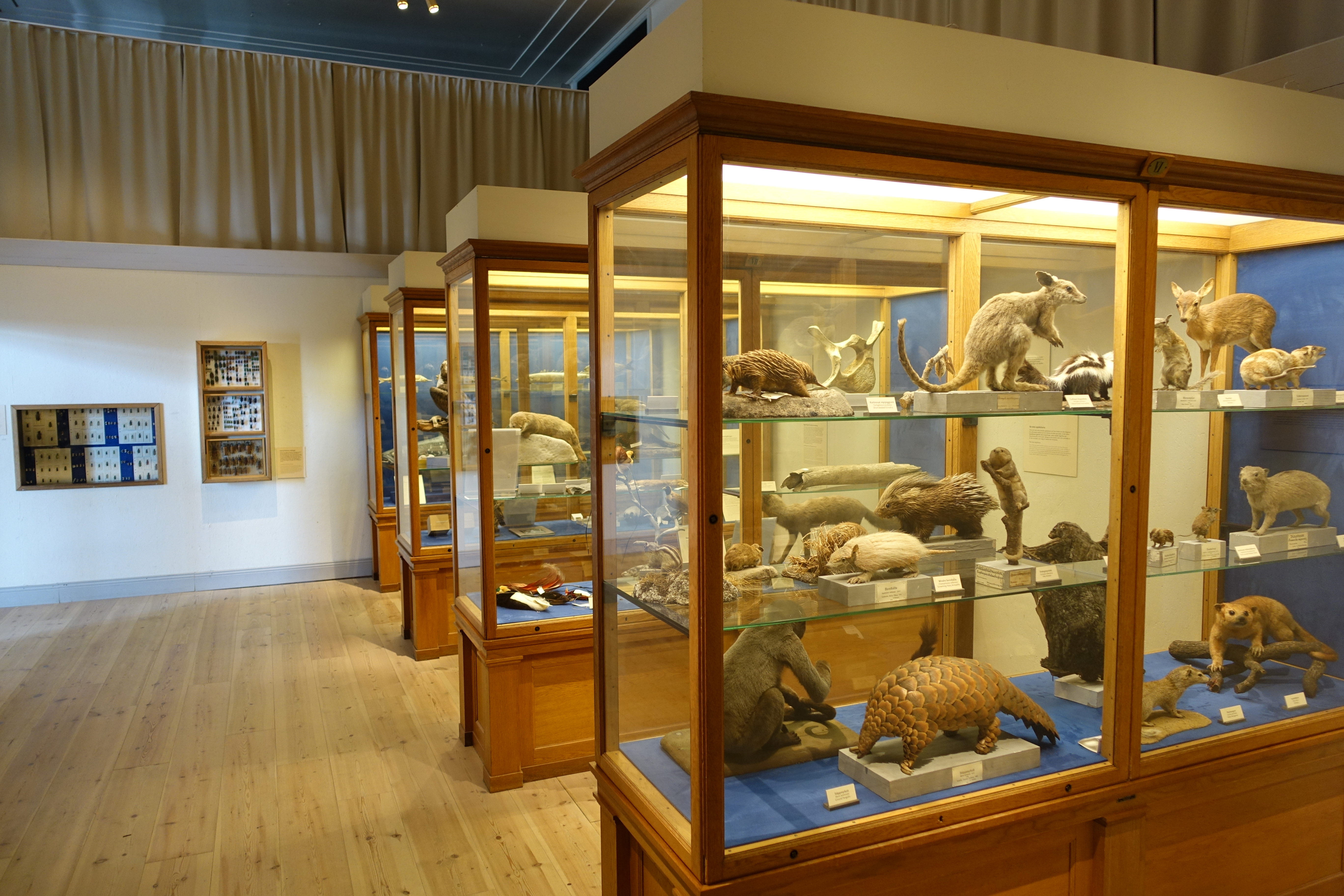 Interior view - Swedish Museum of Natural History - Stockholm, Sweden.